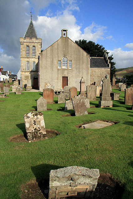 St Cuthbert's Parish Church at Straiton The main part of the church dates from 1758, but older parts date back to pre-Reformation times. The church was renovated in 1901 when the bell tower was added. There are many interesting old gravestones in the churchyard.